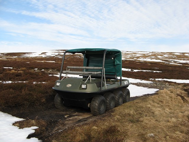 Argo Highland workhorse. All terrain vehicle used by many estates for getting loads to and from the hill. You may come across the term "Argo track" in hill literature - this is what uses or makes them.